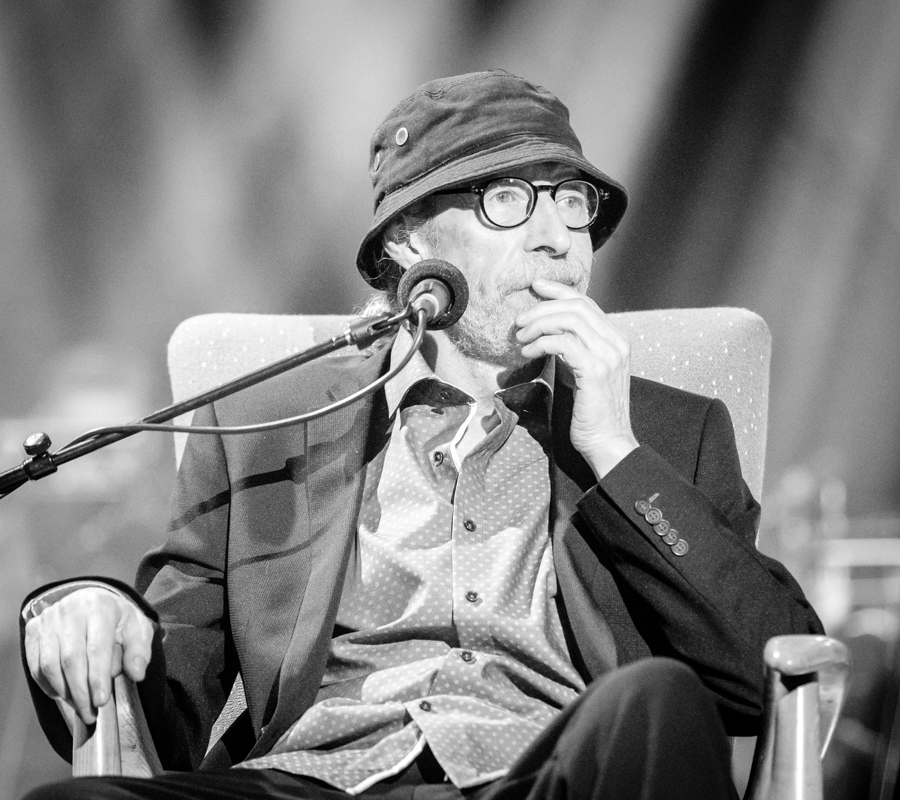 Terje Nilsen with Kringkastingsorkesteret in Store sal at Oslo Konserthus. The concert was part of Oslo Jazzfestival 2018 and took place on 15. August 2018 in Oslo. Lineup: Terje Nilsen (vocal) Kringkastingsorkesteret (orchestra) Gunnar Pedersen (guitar) Terje Nohr (guitar) Rob Mounsey (piano and conductor) Kjetil Sandnes (bass guitar) Steinar Krokstad (drums)